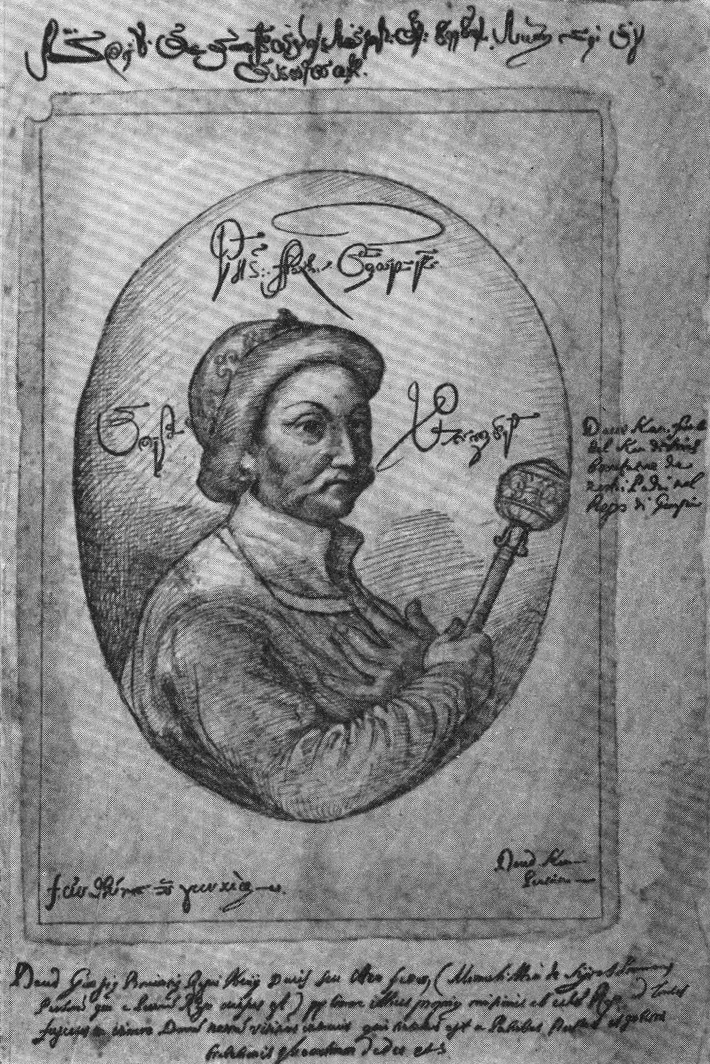 Portrait of Daud Khan Undiladze from the travel album of his contemporary Catholic missionary Cristophoro Di Castelli